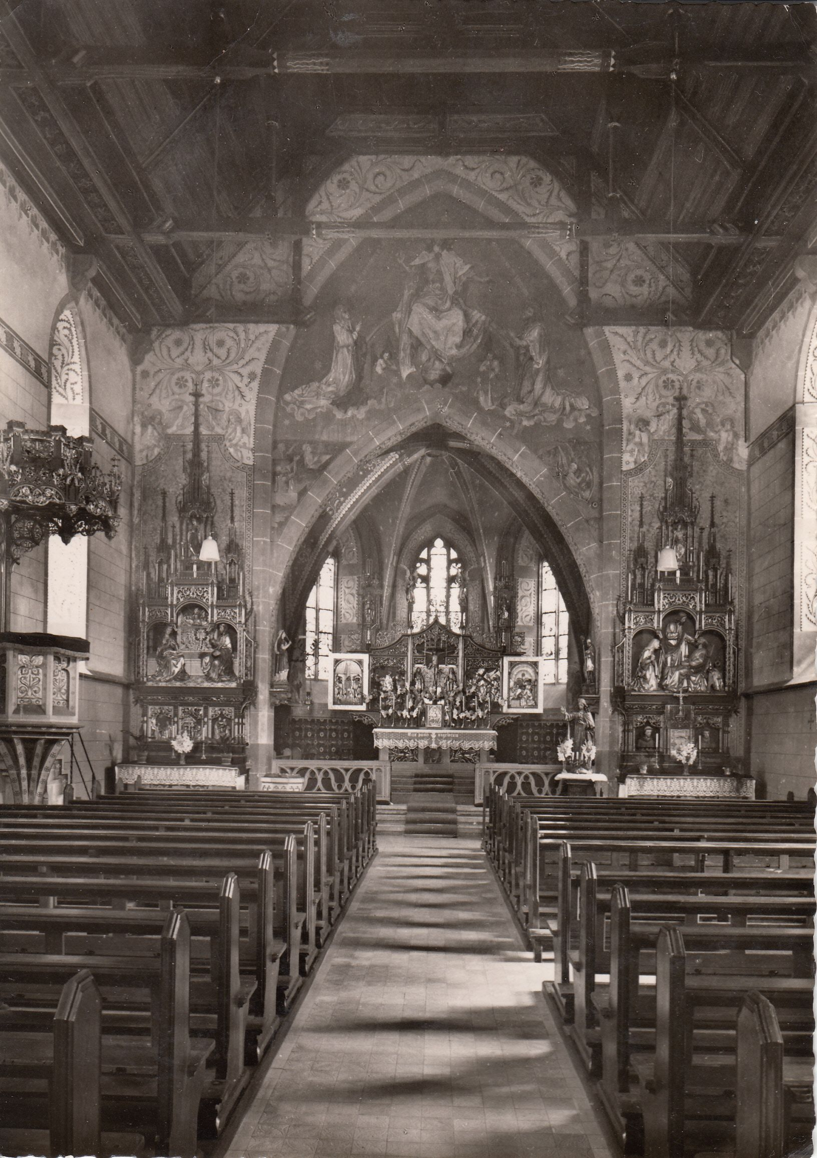 Pfarrkirche St. Blasius in Buchenbach im Schwarzwald im neugotischen Originalzustand ca. 1910